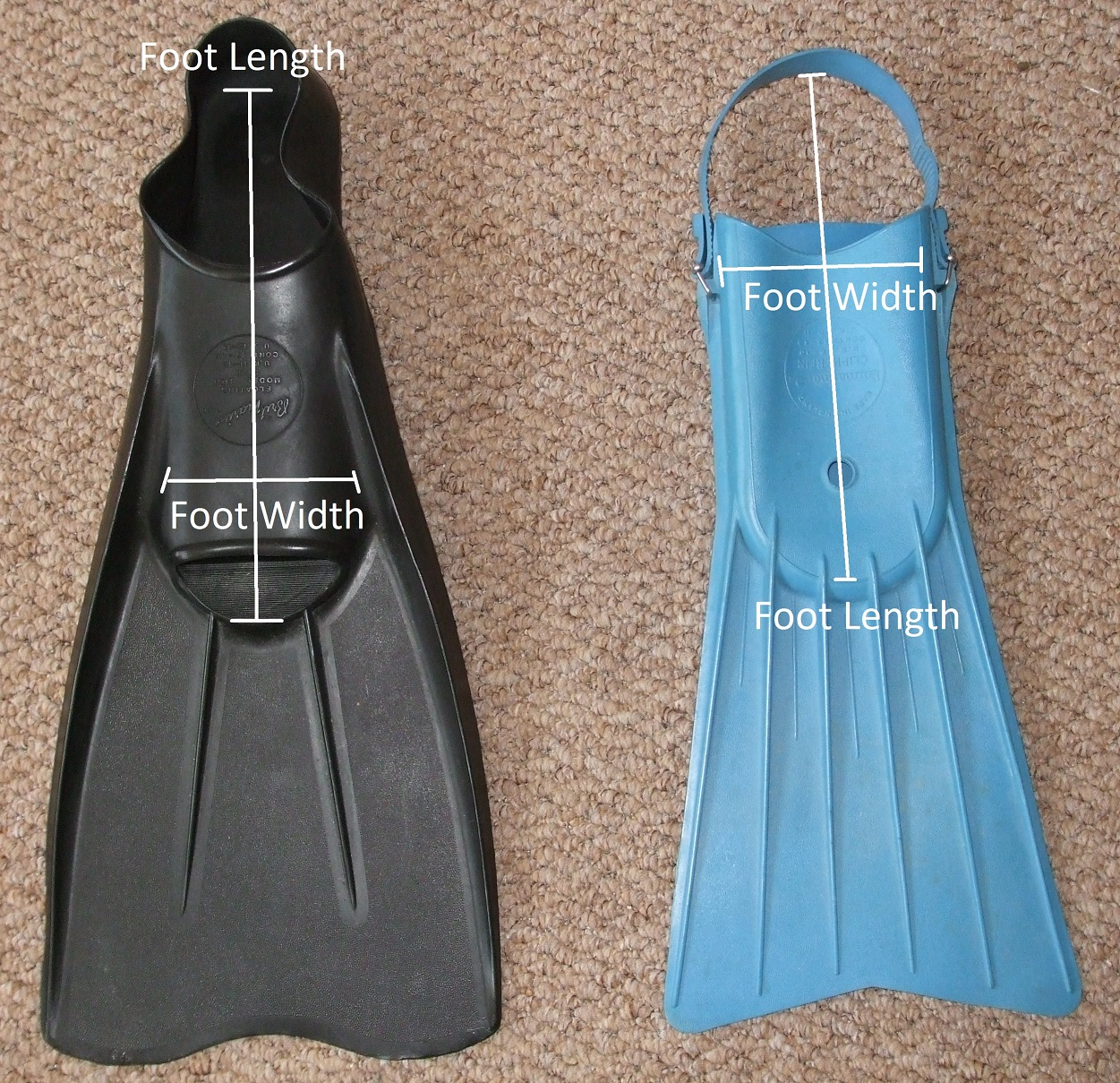 This image of a Britmarine Model A full-foot fin and a Britmarine Clipper open-heel fin is designed to accompany a forthcoming article about a German standard focusing on the dimensioning of swimming fins.